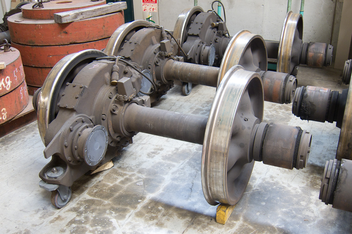 WN-drive gear of Seibu Railsy's EMU.